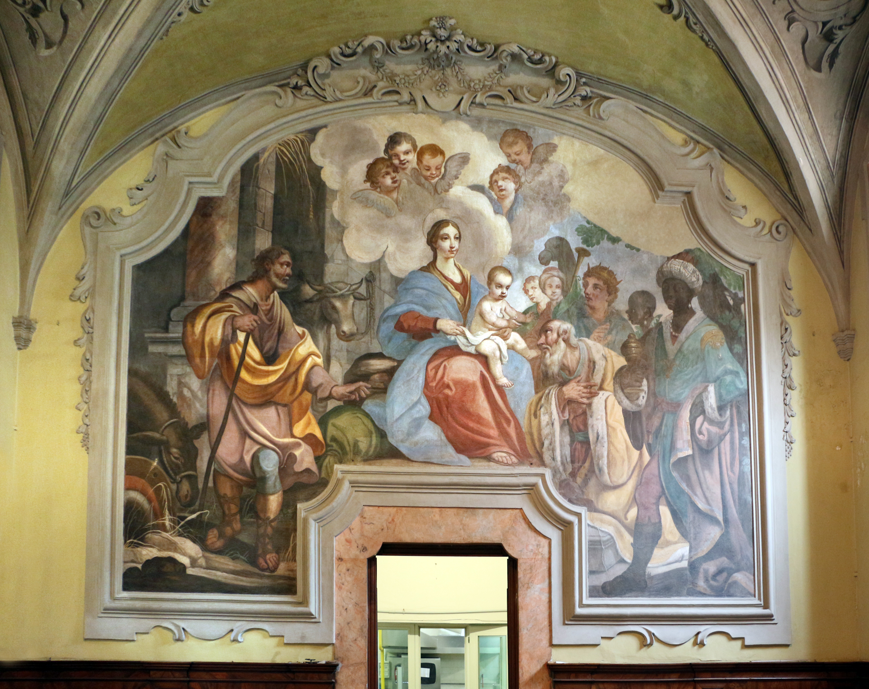 Refettorio (Collegio Cicognini)